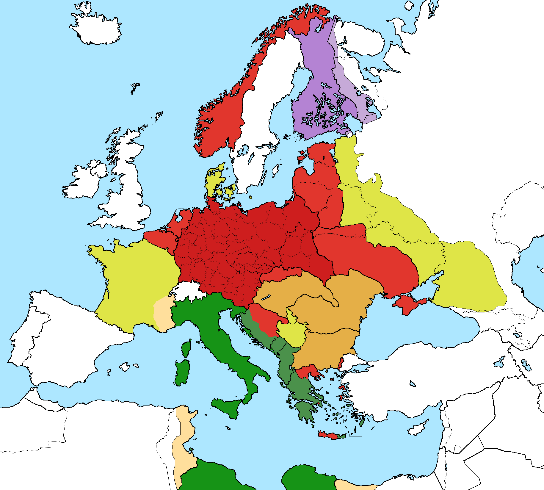 A map of German front of the Second World War circa 1941-1942.